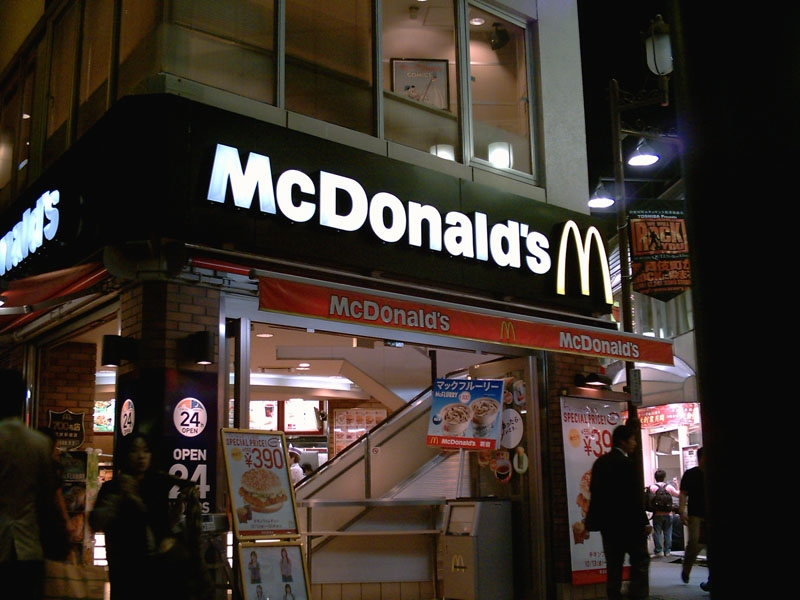 McDonald's・Tokyo,_Japan photography day, 2006/10/16 photography person kici